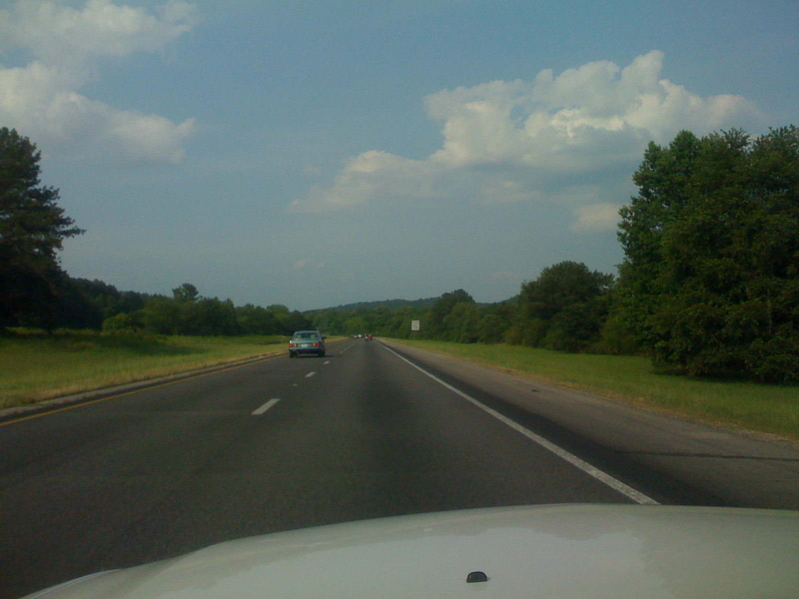 I-59 North from Birmingham to Gadsden, Alabama